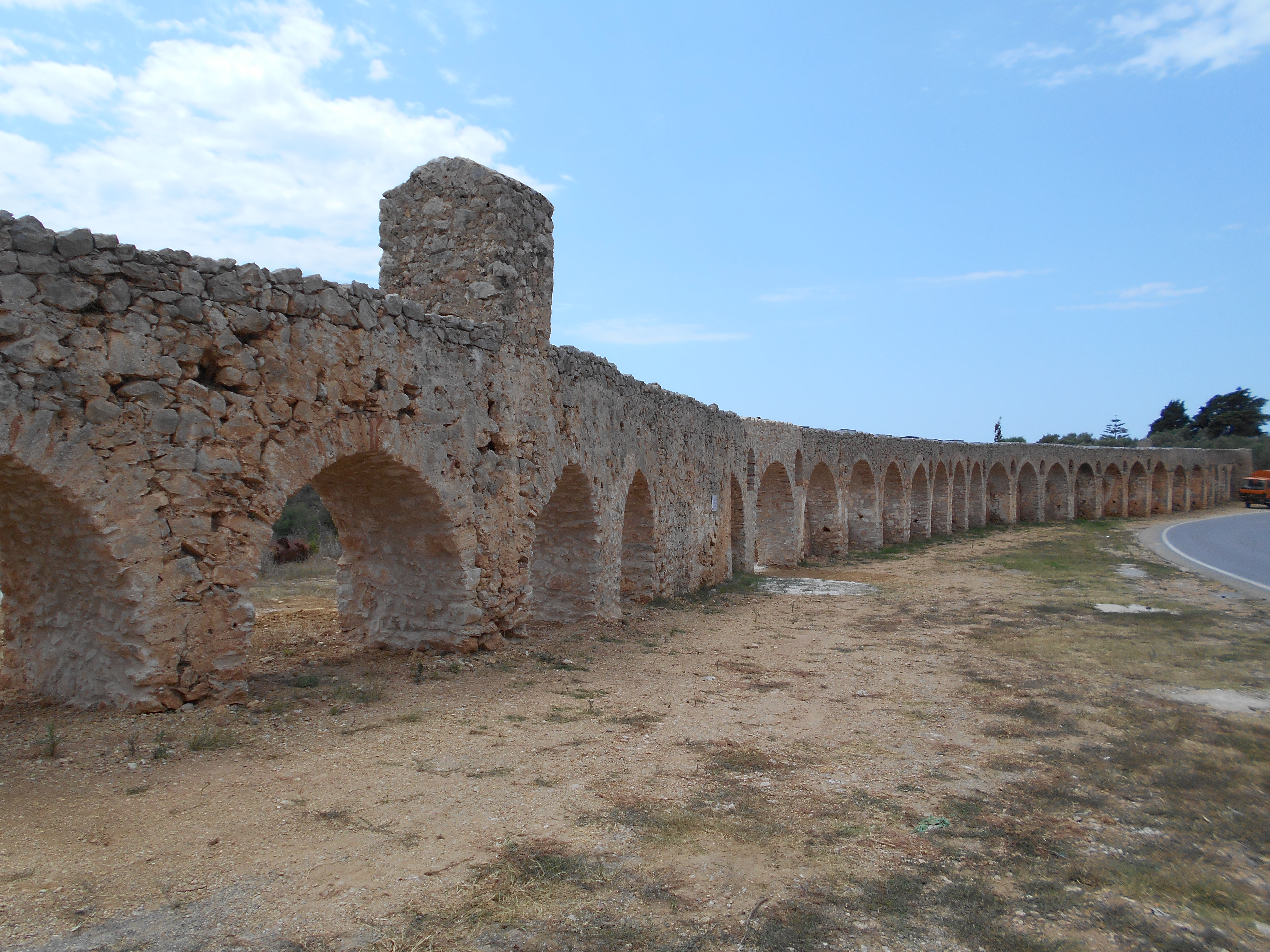 ancient aqueduct, Pylos